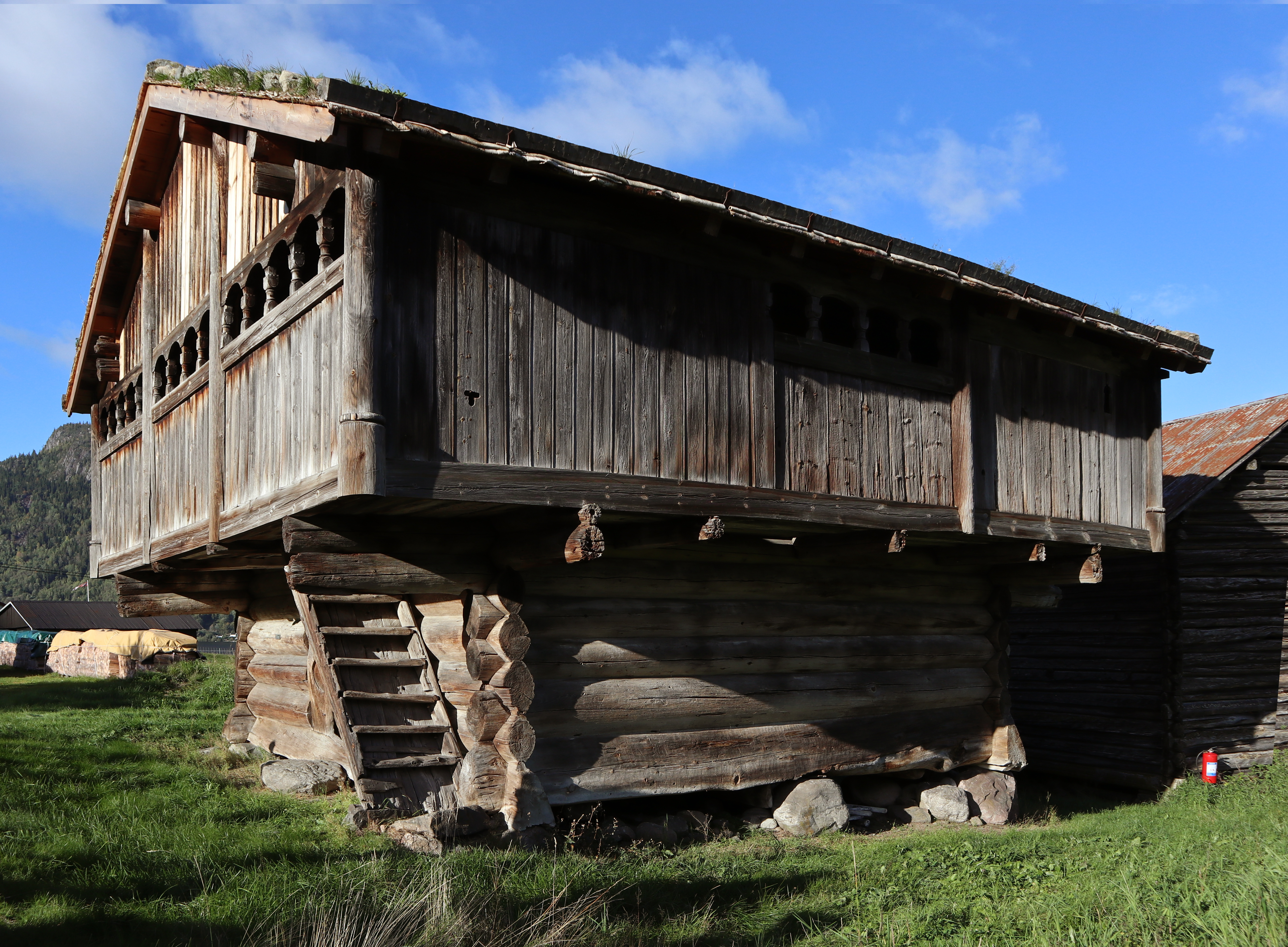 Haugeburet